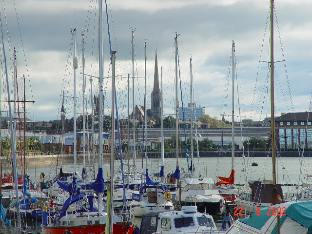 Preston docks looking to St Walburge's steeple. The Albert Edward dock is now closed as a commercial port and the area is now a marina with housing and commercial developments.